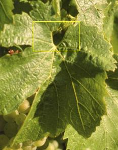 Cropped image of Image:Chardonnay Avize.jpg with highlights of what a "naked vein" is around the petiolar sinus of the grape vine leaf.